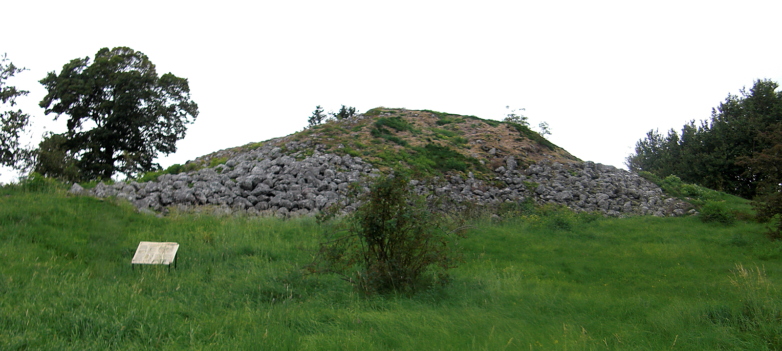 The Bronze Age cairn called Stenkullen (i.e. "The Stone Hill") (RAÄ number Tun 5:1) in Tun Parish, Åse Hundred, Lidköping Municipality, former Skaraborg County, Västergötland, Västra Götaland County, Sweden.